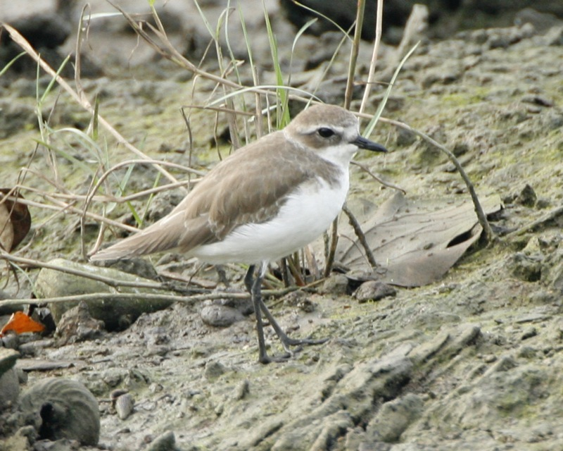 Mongolian Plover - in winter plumage Broad grey brown lateral breast patches Grey brown upper parts Grey legs White supercillium and forehead Charadrius mongolus Malay: Rapang Mongolia Indonesian: Cerek-pasir Mongolia Thai: นกหัวโตทรายเล็ก Location : Sungei Buloh Wetland Reserve Date: 11th. November 2007 _Q0S1114